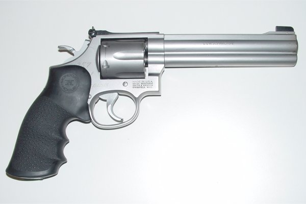 Smith & Wesson Model 686-3 Target Champion (6", modified)